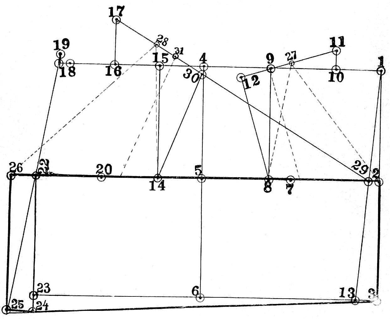 Sewing pattern for designing a woman's camisole.